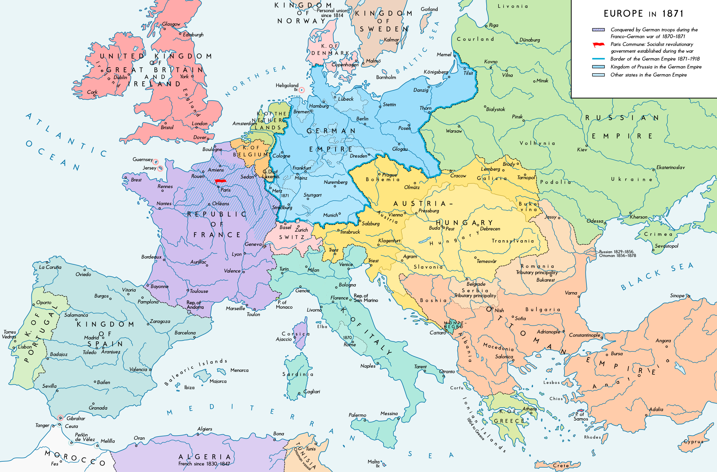 Europe 1871. Historical map of the political situation after the Franco-Prussian War (1870-1871) and the formation of the German Empire. Please don't alter the map, when you think there something not written or depicted correctly. Leave a message at the talk page of the file. After a verificiation and a possible discussion, i will upload a new map version with all new changes. This prevents an unnecessary waste of disc space and ensures a good result, aesthetically and contentwise. - The author.